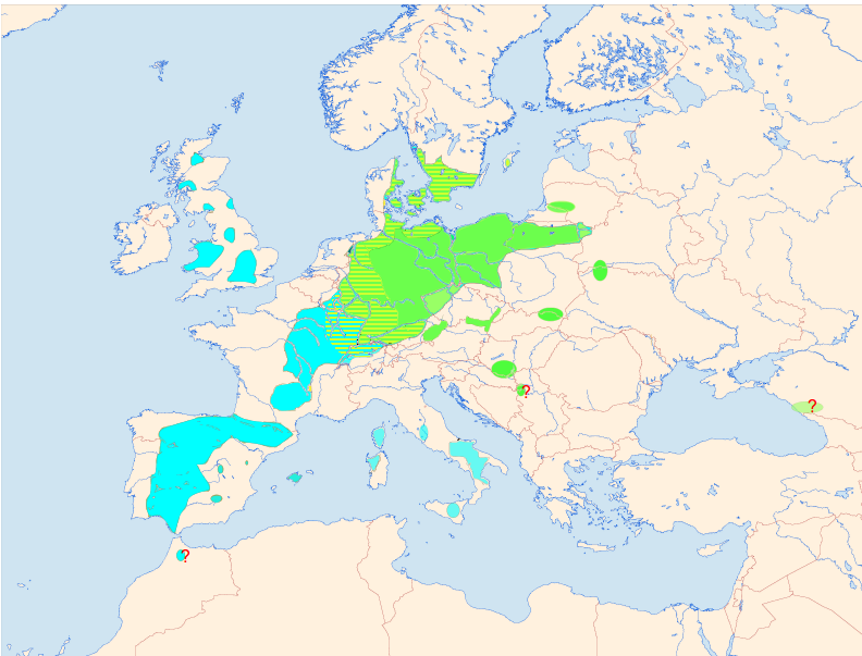 Milvus milvus distribution